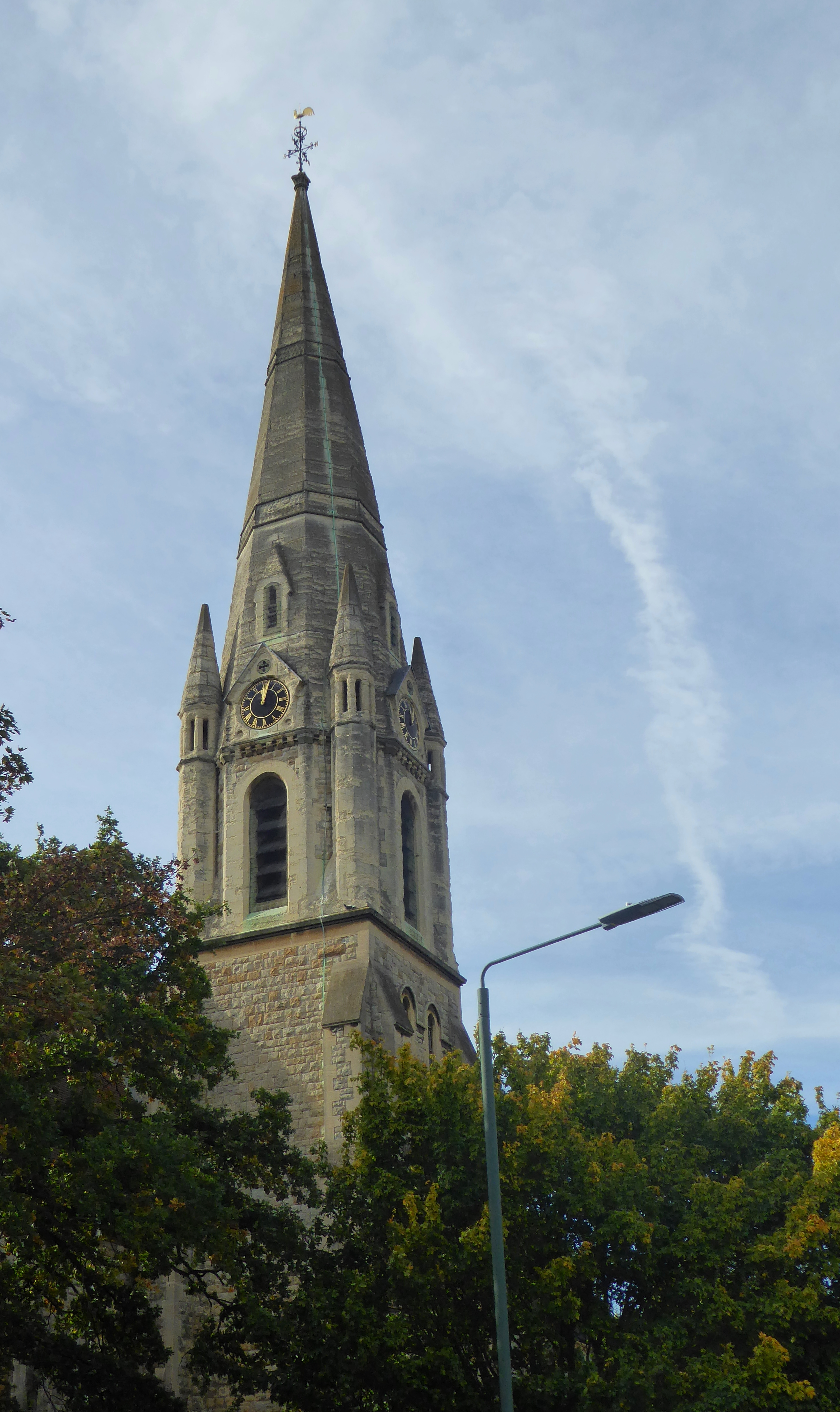 The neo-gothic tower of the Church of St John the Evangelist in Bexley.